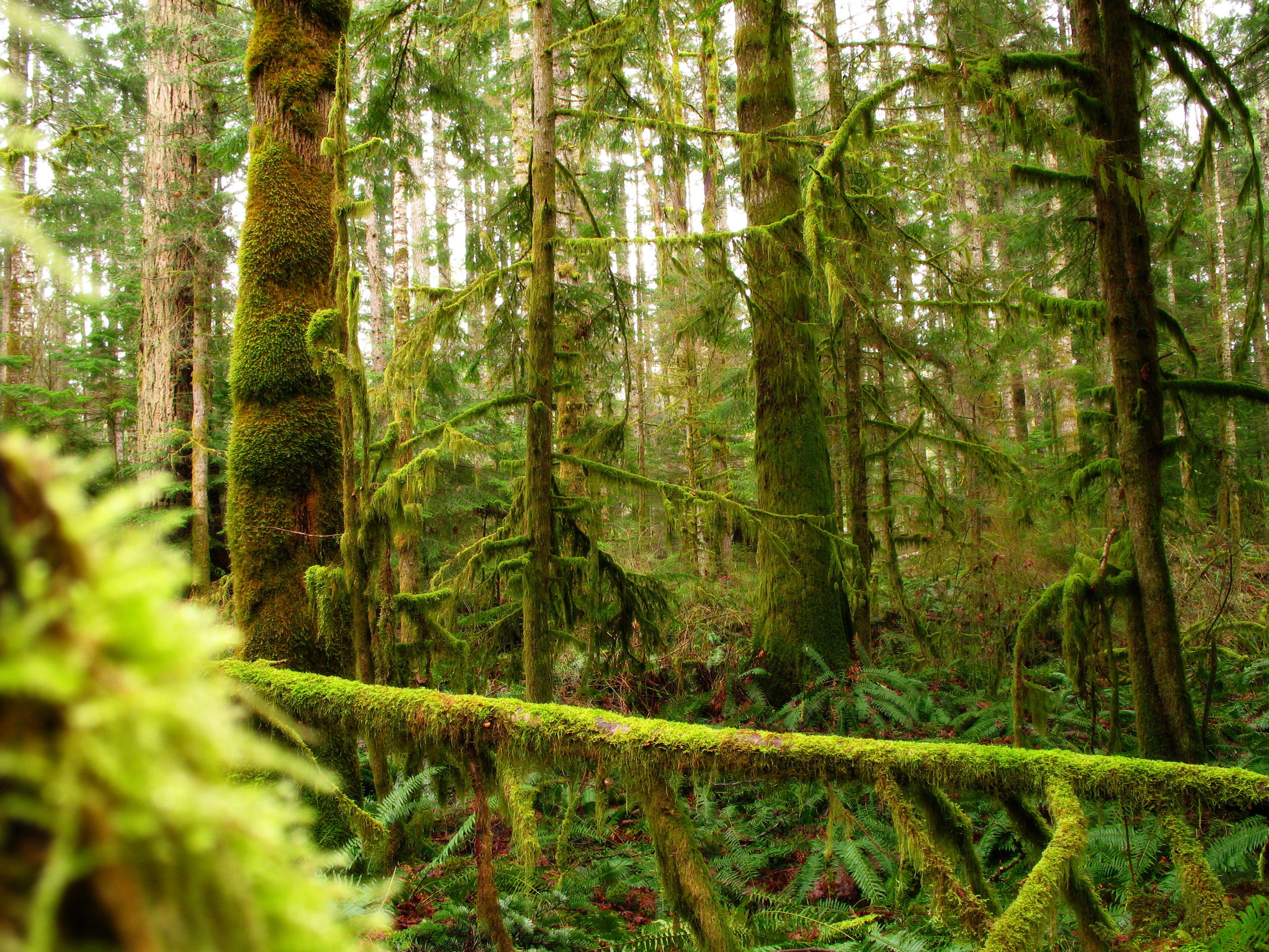 Forest on Vancouver Island BC Canada in winter near the ocean. Post processed with a positive contrast mask in "The Gimp" as well as a bit of colour enhancement.